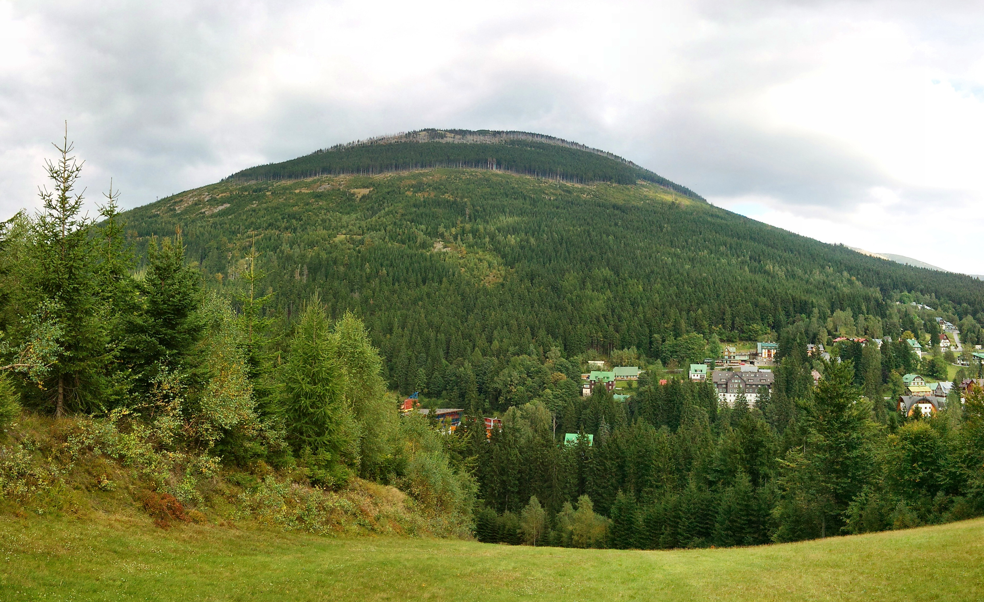 Železný vrch in the Krkonoše Mountains, view from Medvědín.